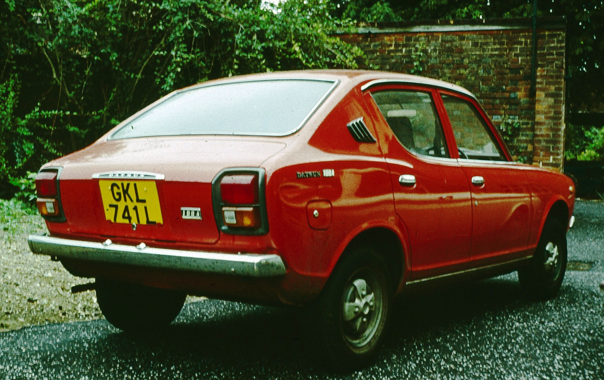 Datsun Cherry 100A 1972